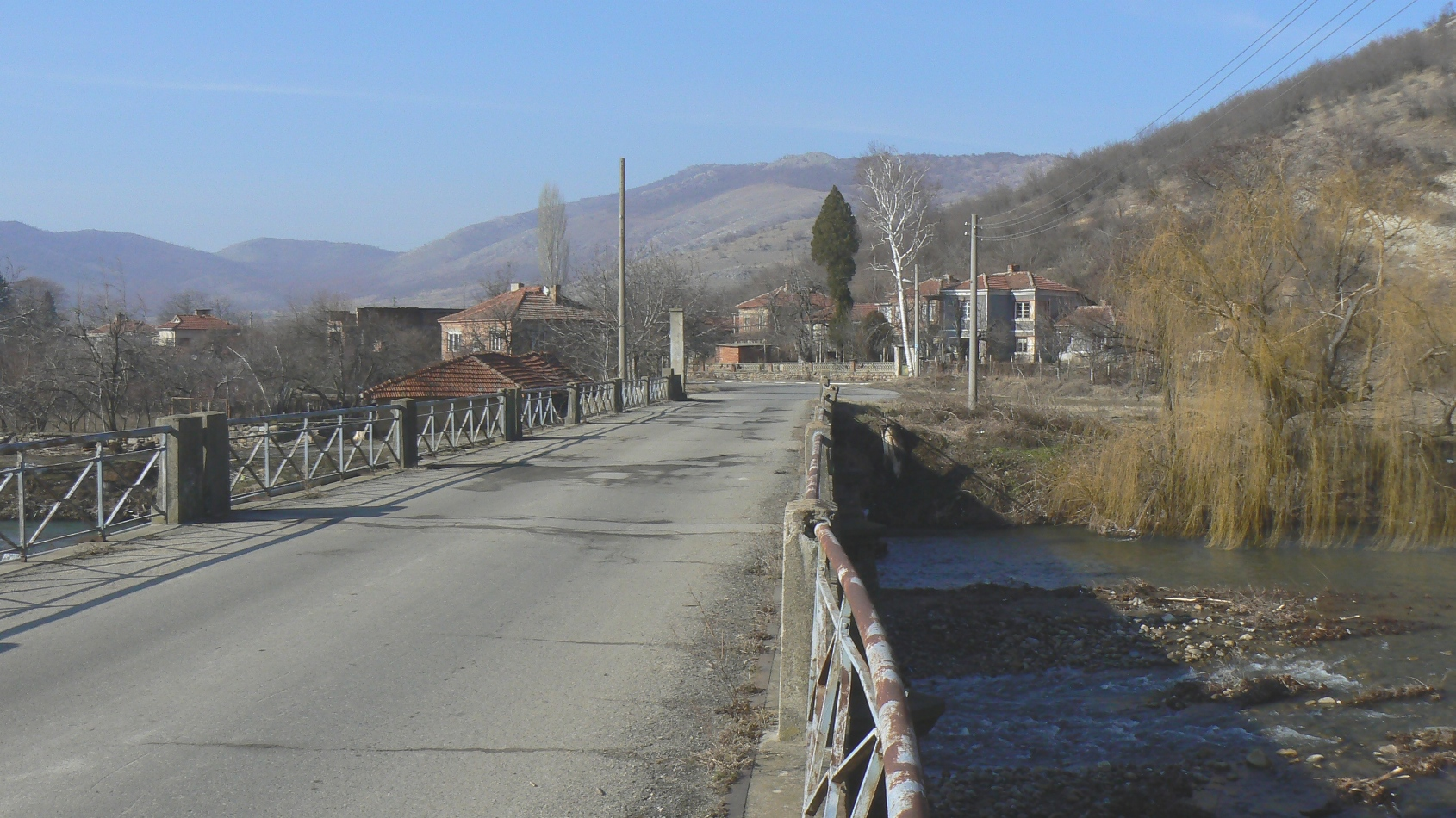 Village Binkos in Bulgaria; bridge over Belenska river